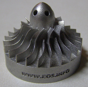 Miniature turbine 3D print from Rapid 2006 in Chicago, Illinois.